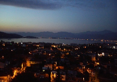 Fethiye at night